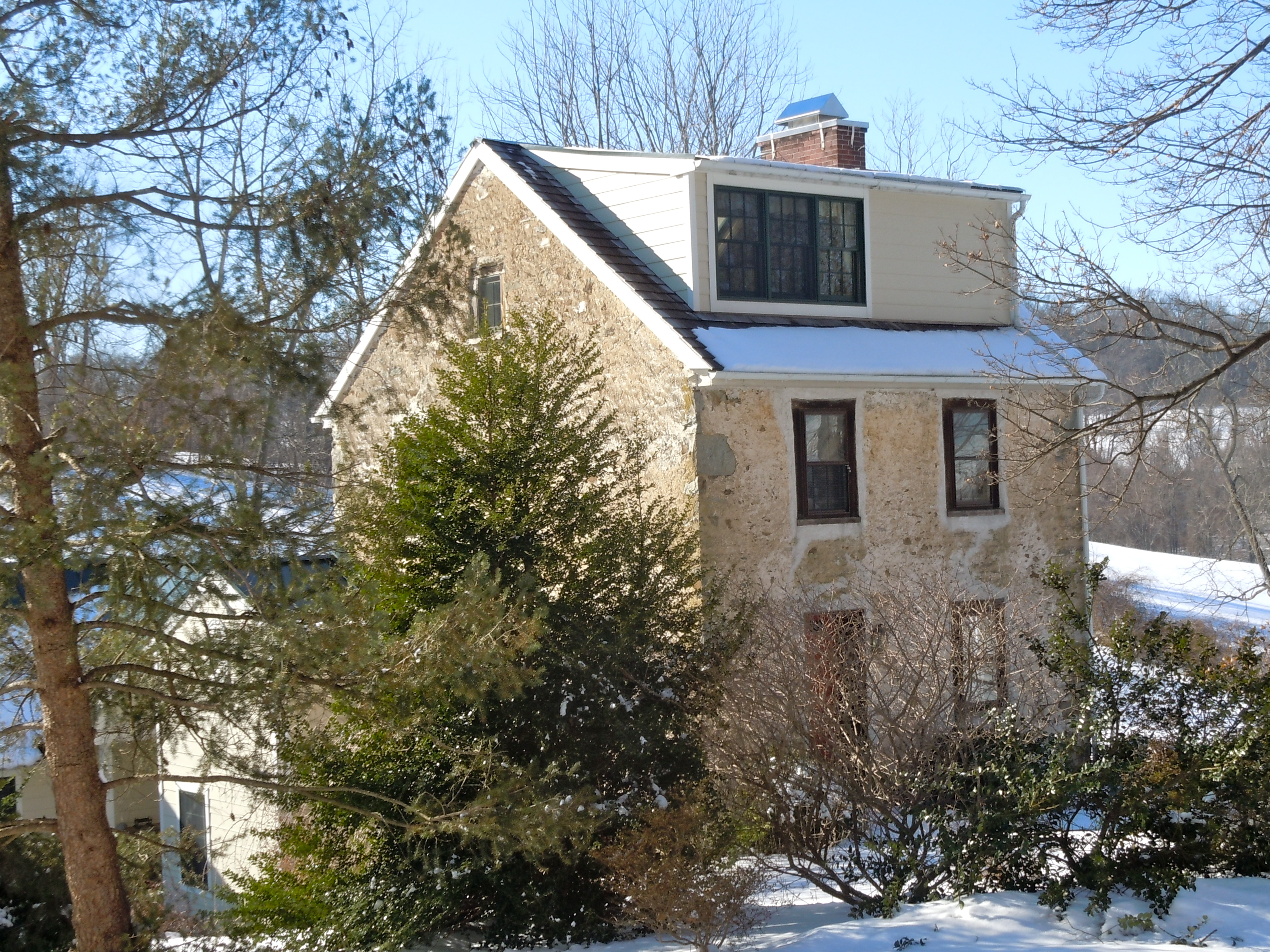 John Ferron House on the NRHP since November 26, 1985, on Saint Malachi Road just north of the church, in Londonderry Township, Chester County, Pennsylvania